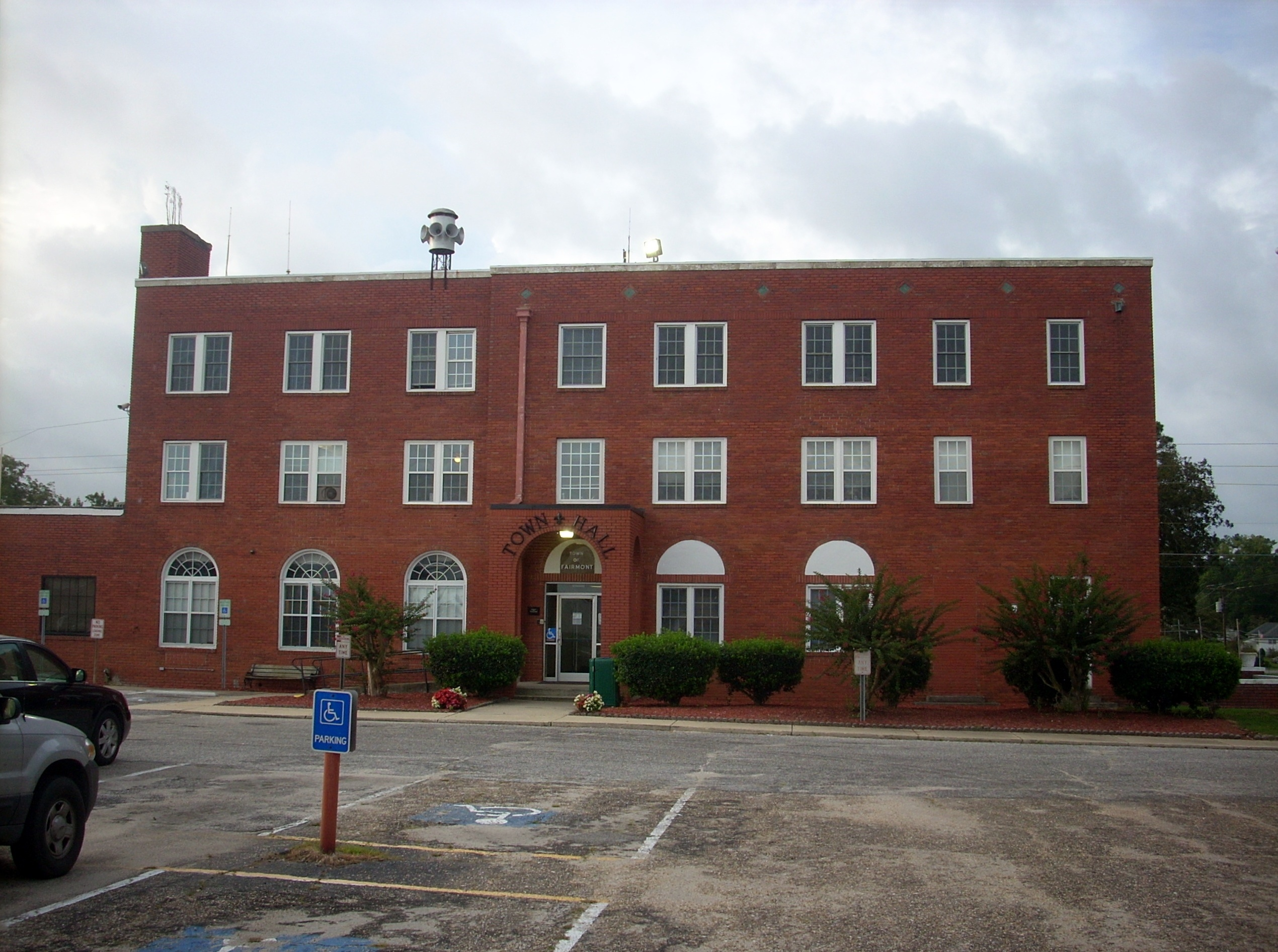 This is a really big town hall for such a small town. Maybe it was the old hotel?